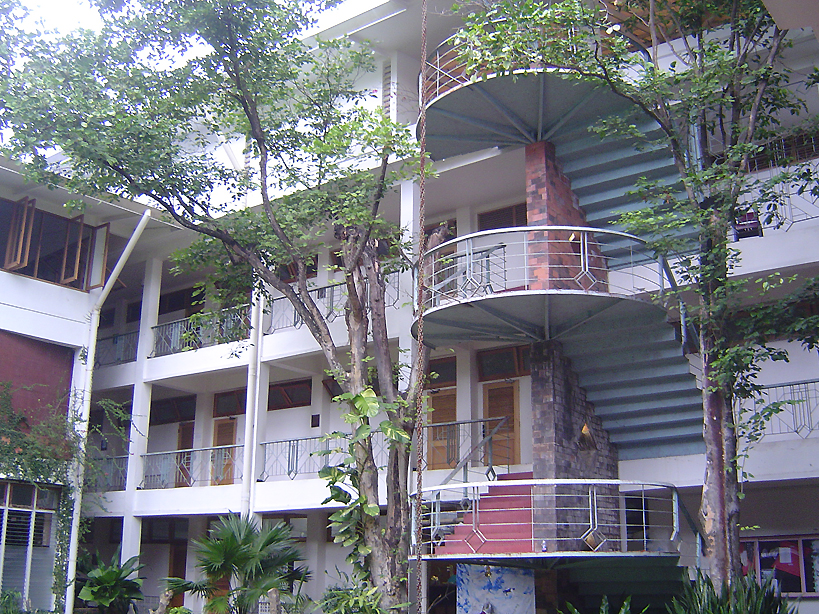 College of Arts and Sciences Building